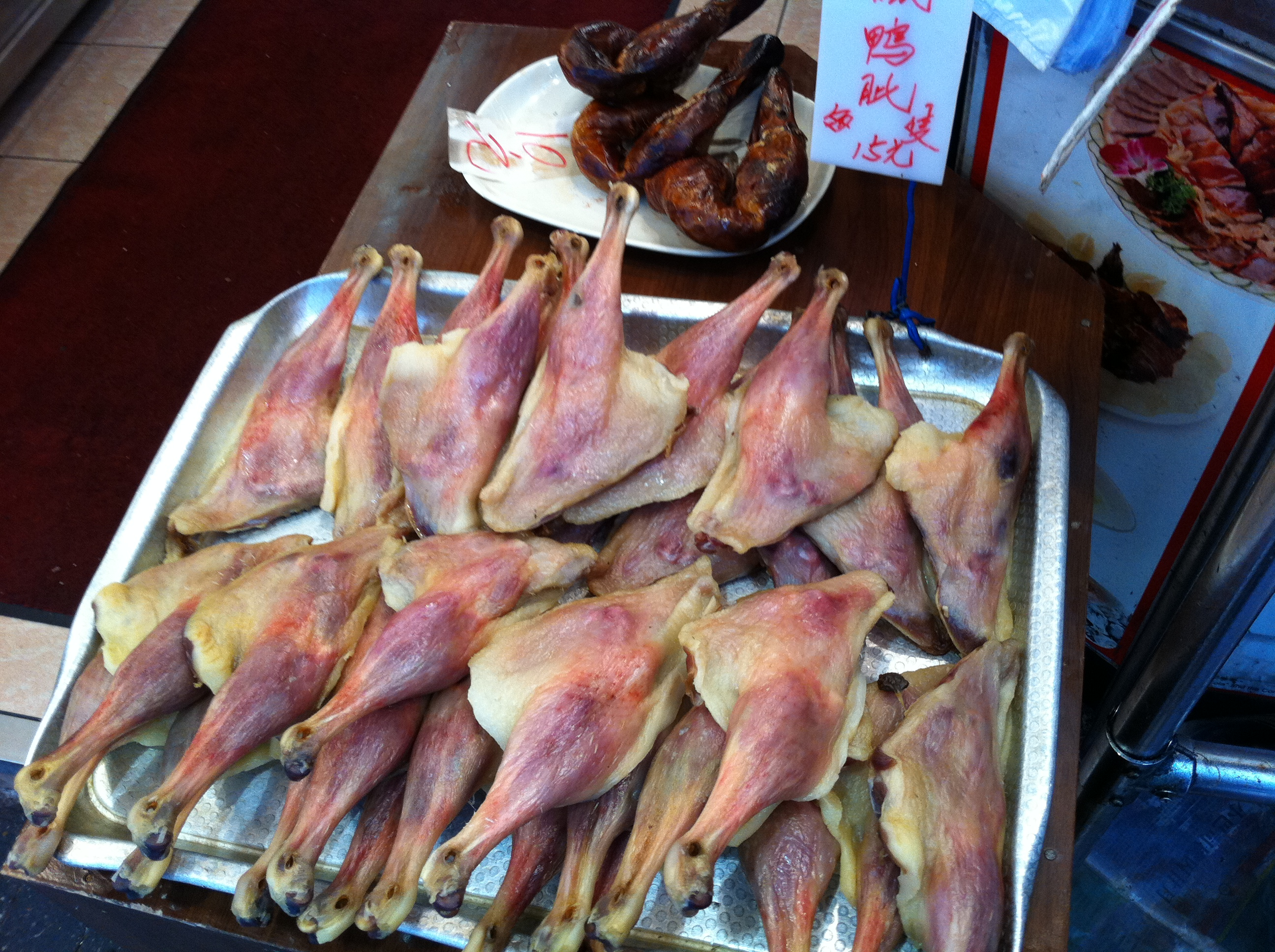 得記燒臘飯店, 東勝道, Tung Sing Road, Aberdeen, Hong Kong